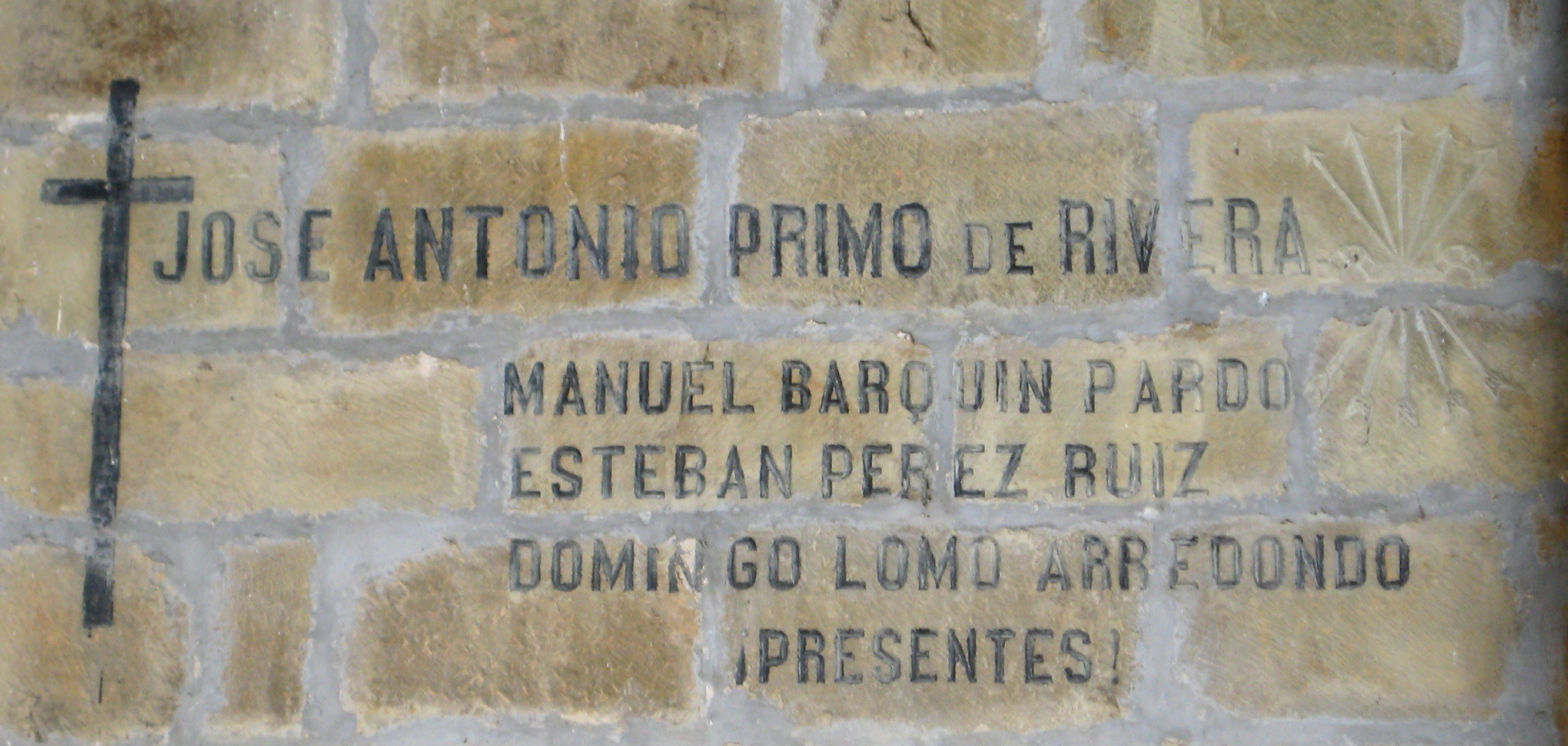 Inscription on the façade of Saint Michael's Church (in Ogarrio, Ruesga, Cantabria, Spain), in memory of José Antonio Primo de Rivera and the local supporters of the nationalist side fallen during Spanish Civil War. The symbol of Falange (right) has been deleted, though the cross, the names and the Presentes line remain.